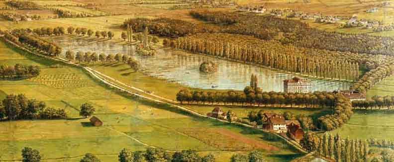 Leopoldskron Castle near Salzburg, part of the panorama painting from 1829 by Johann Michael Sattler (1786-1847)